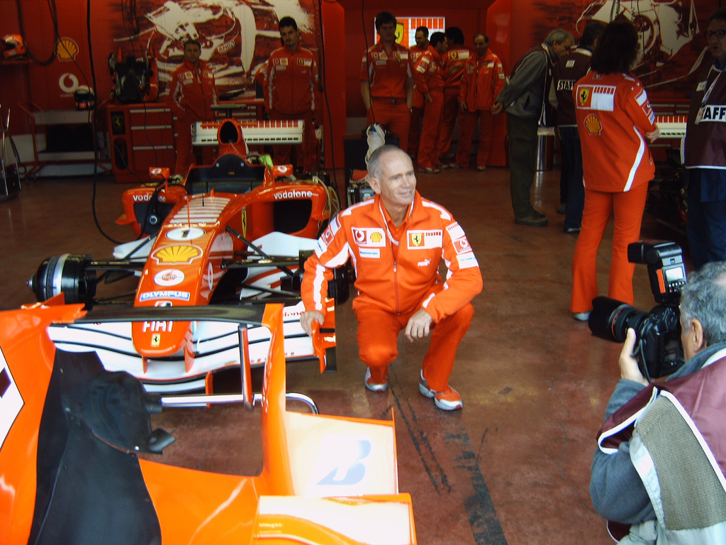 Scuderia Ferrari Chief Designer Rory Byrne